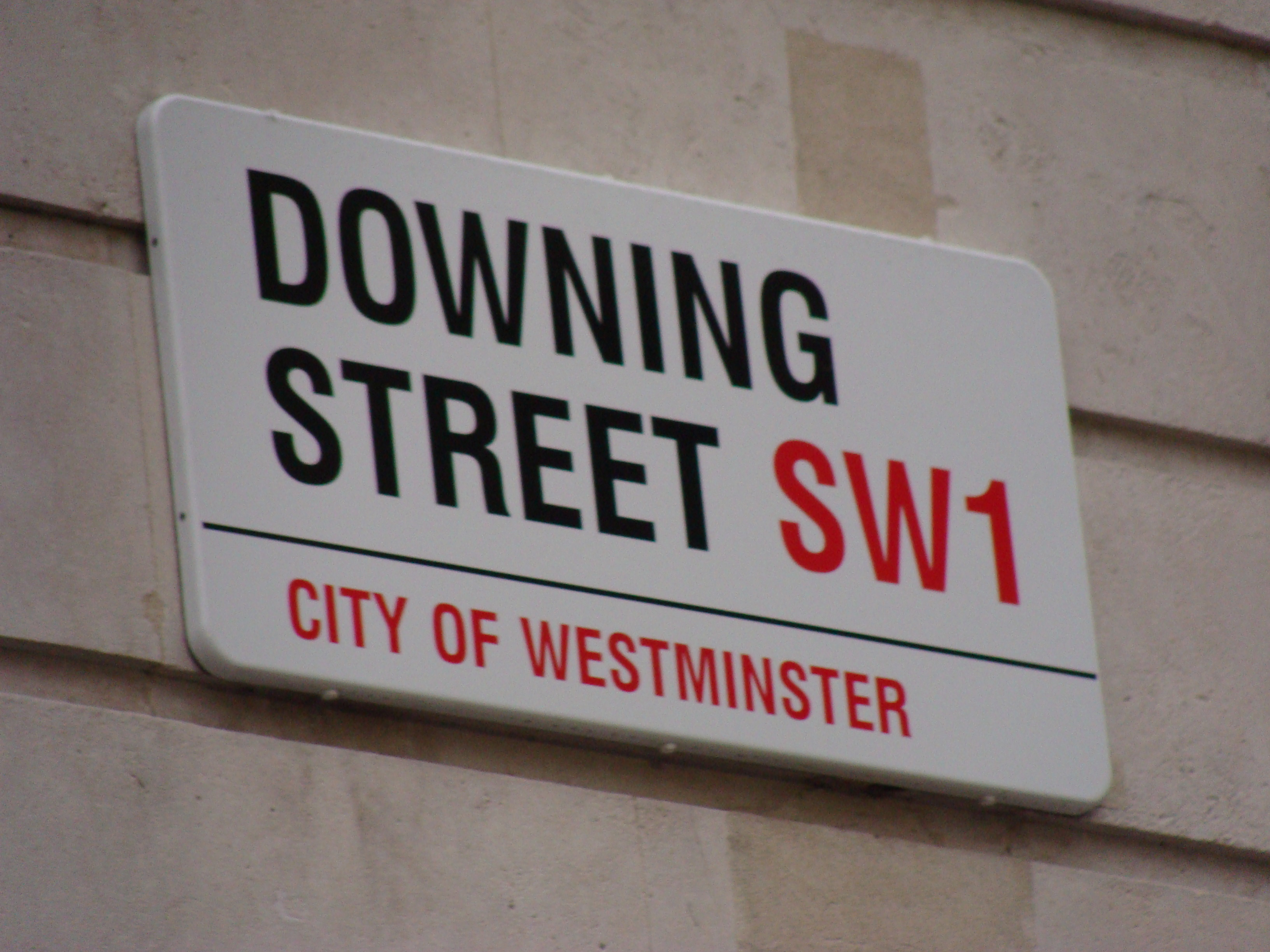 Street sign of Downing Street in City of Westminster, London.